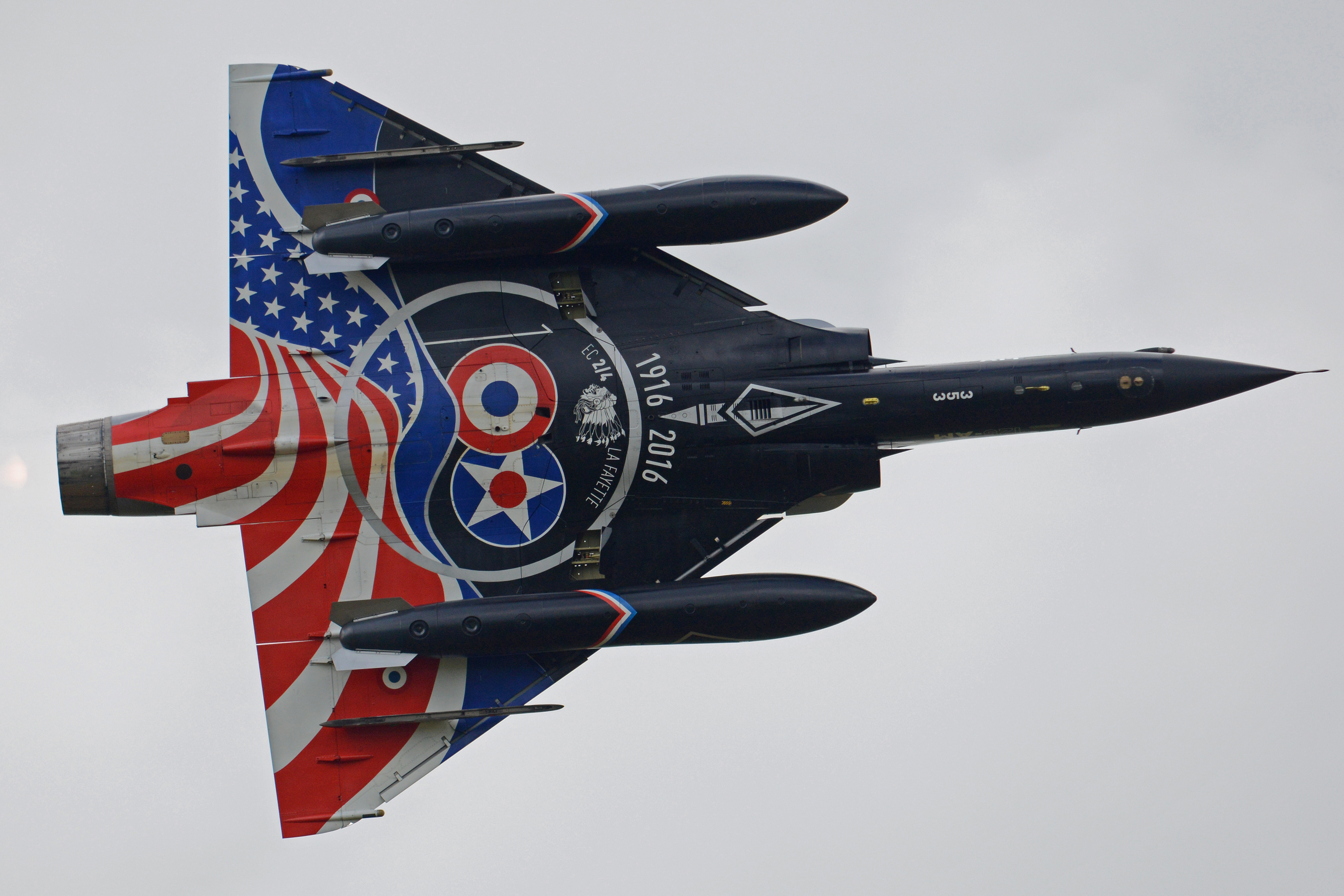 c/n 315. French Air Force callsign F-ULAM. Operated by EC02.004 French Air Force and in special markings to celebrate 100 years of Escadrille Lafayette, a unit with many US volunteer pilots during WW1. Seen displaying as part of the two-ship 'Ramex Delta' team at the 2016 Belgian Air Force Day, Florennes, Belgium. 25th June 2016